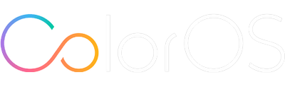 ColorOS Logo